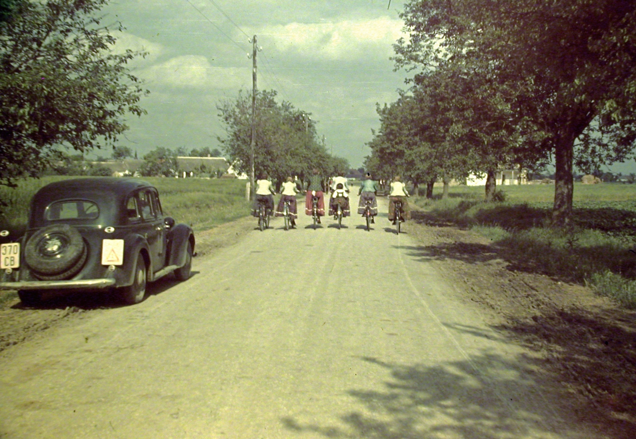 Hungary (probably) Tags: colorful, bicycle, number plate, folk costume, automobile